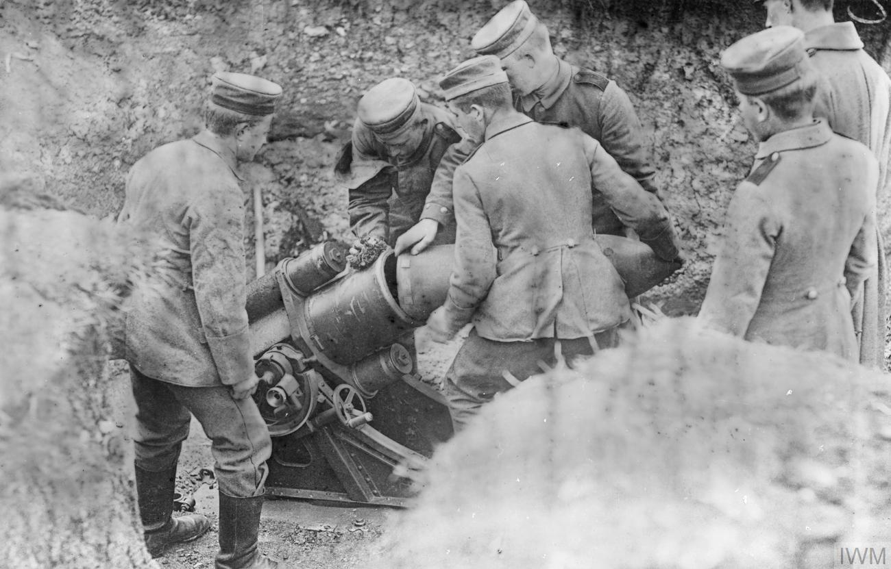 Photograph of German soldiers loading a 25 cm Minenwerfer, early short-barrel model, World War I. The crew are standing behind the mortar. Once loaded, the barrel will be rotated to face forward. This appears to show young recruits in training.